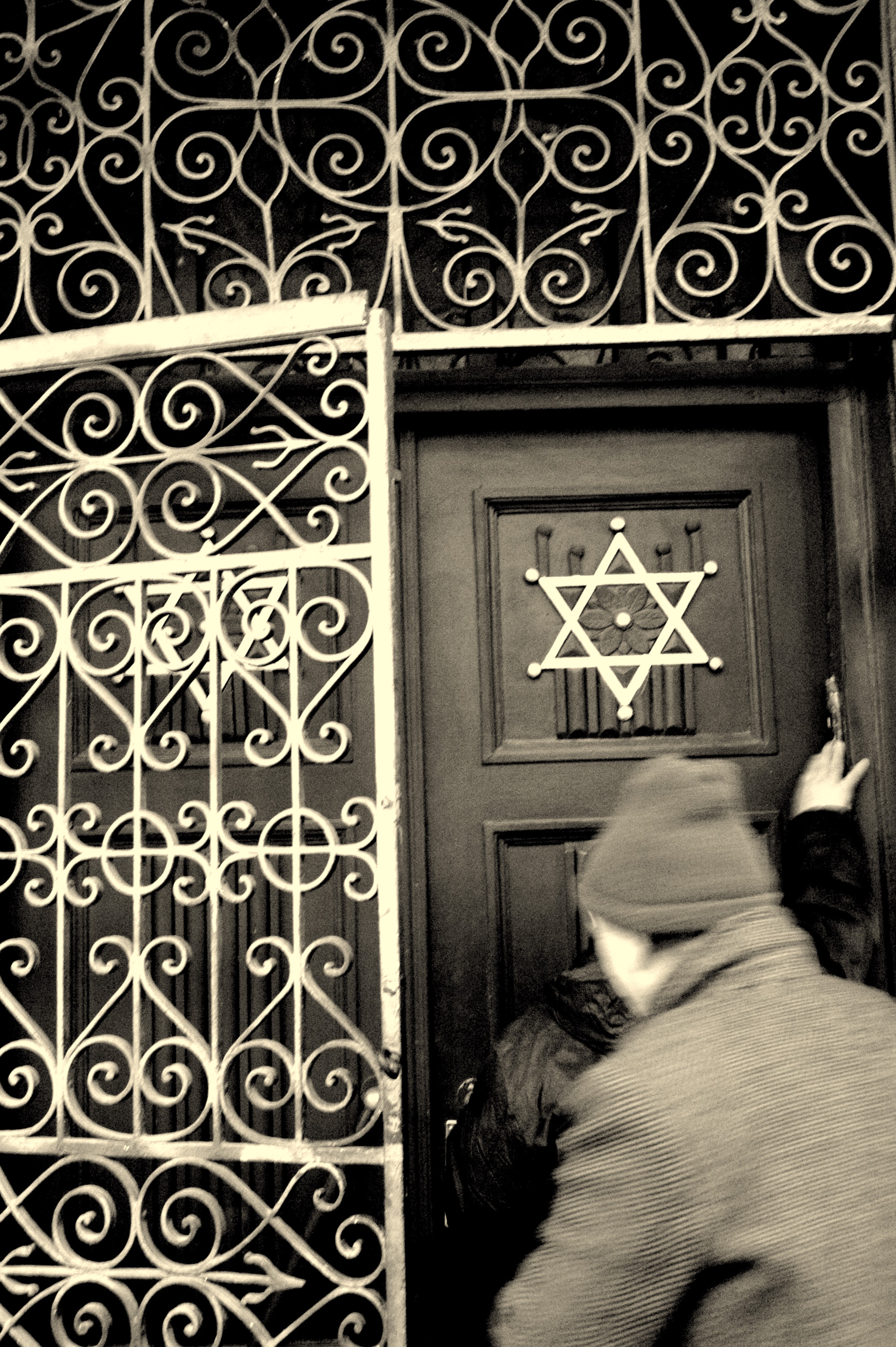 Men kissing Mezuzah before entring to Synagogue of Kutaisi, Georgia